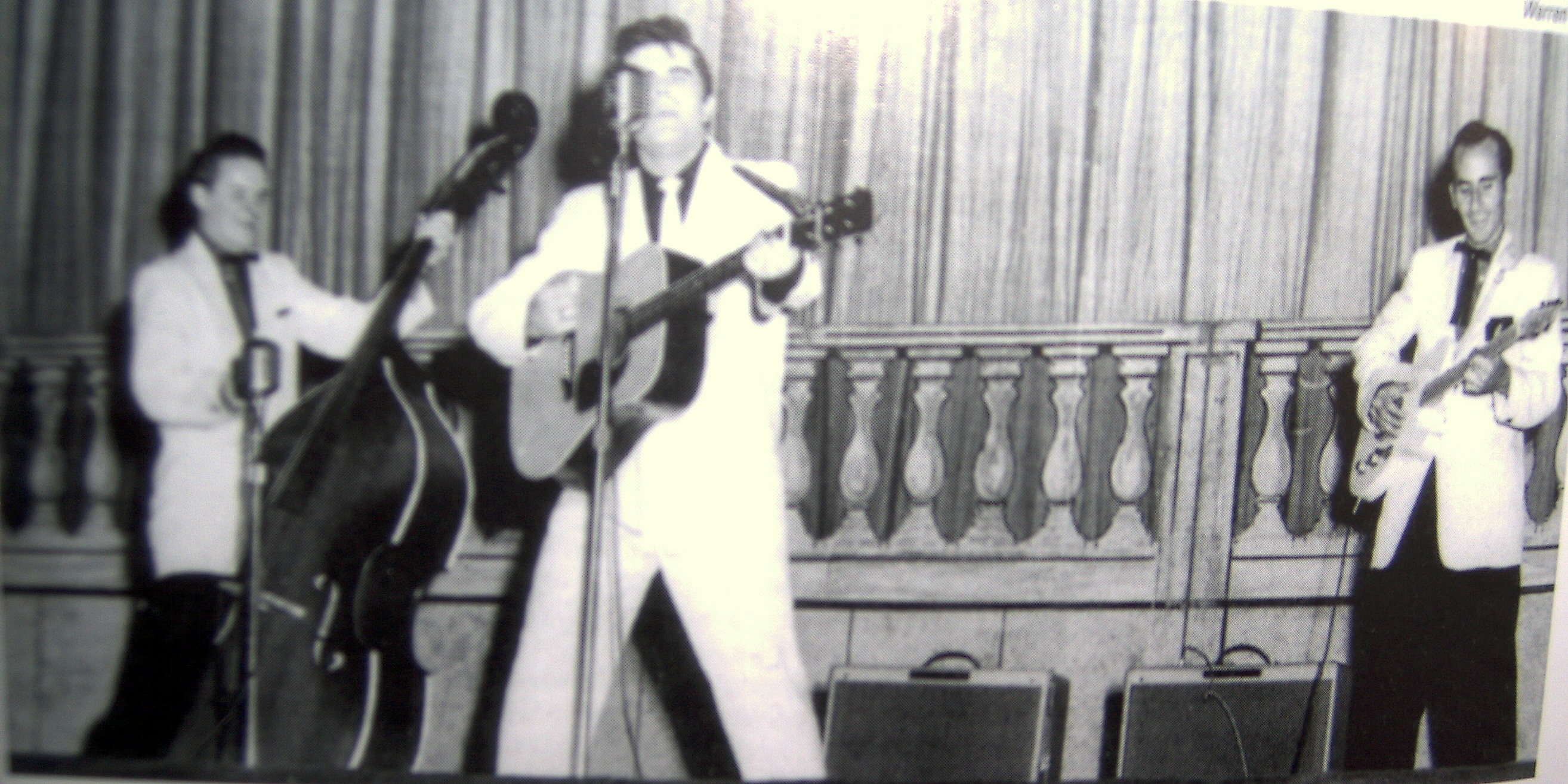 Rockabilly singer Warren Smith at the Big D Jamboree